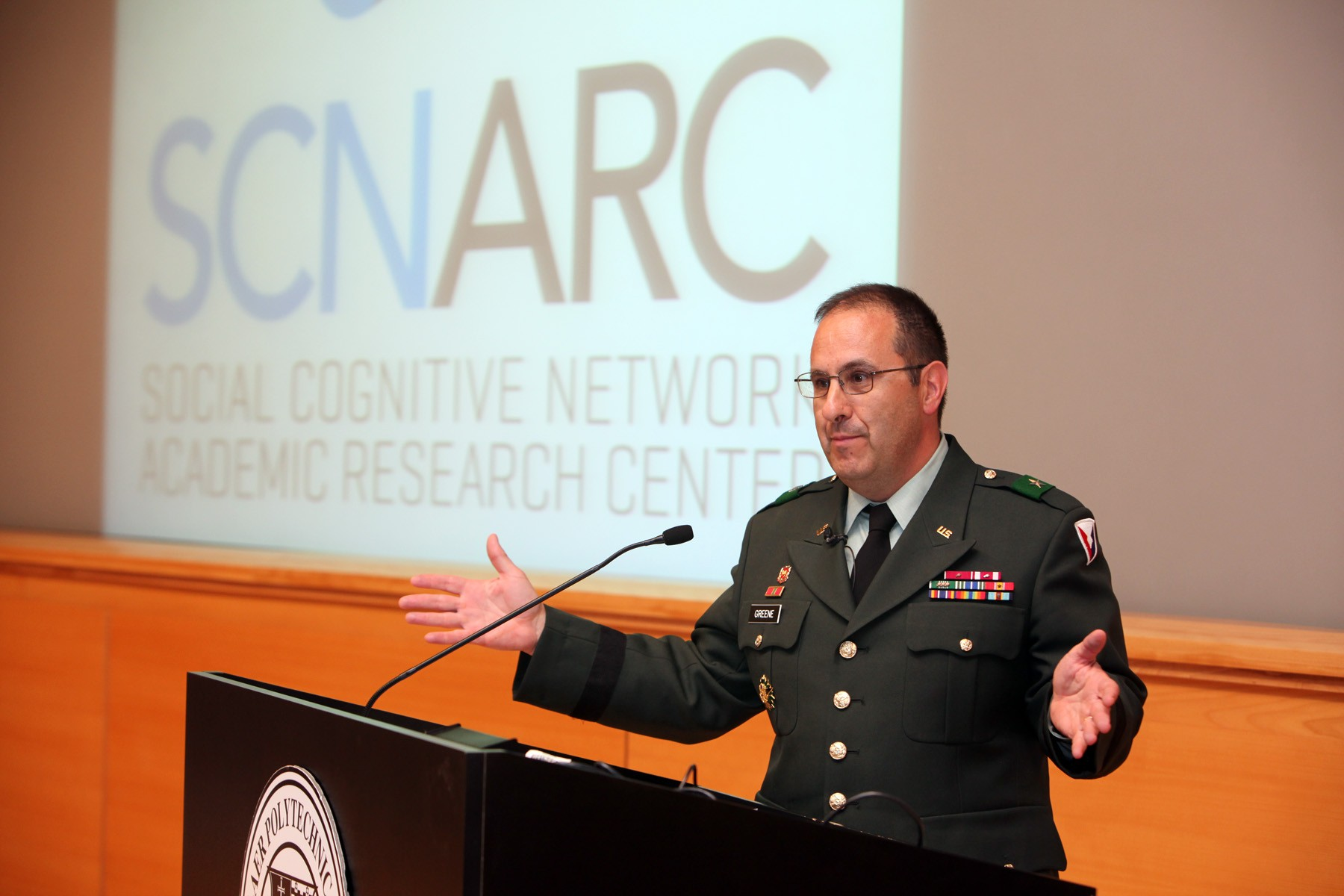 Research, Development and Engineering Command Deputy Commanding General Brig. Gen. Harold J. Greene, a Rensselaer alumnus, speaks at the opening of the Social Cognitive Networks Academic Research Center May 3 at Rensselaer Polytechnic Institute in Troy N.Y.